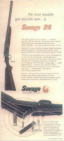 Advertisement for SAVAGE-STEVENS RIFLE/SHOTGUN MODEL 24 .22/410 Manufactured by Savage-Stevens, Chicopee Falls, Ma. - Savage over/under rifle/shotgun. Top barrel .22 L.R., lower barrel .410 3-shot shell. Ramp front open rear sight. Blued and case colored. Uncheckered walnut pistol grip stock. Finish worn on triggerguard. Select switch missing.